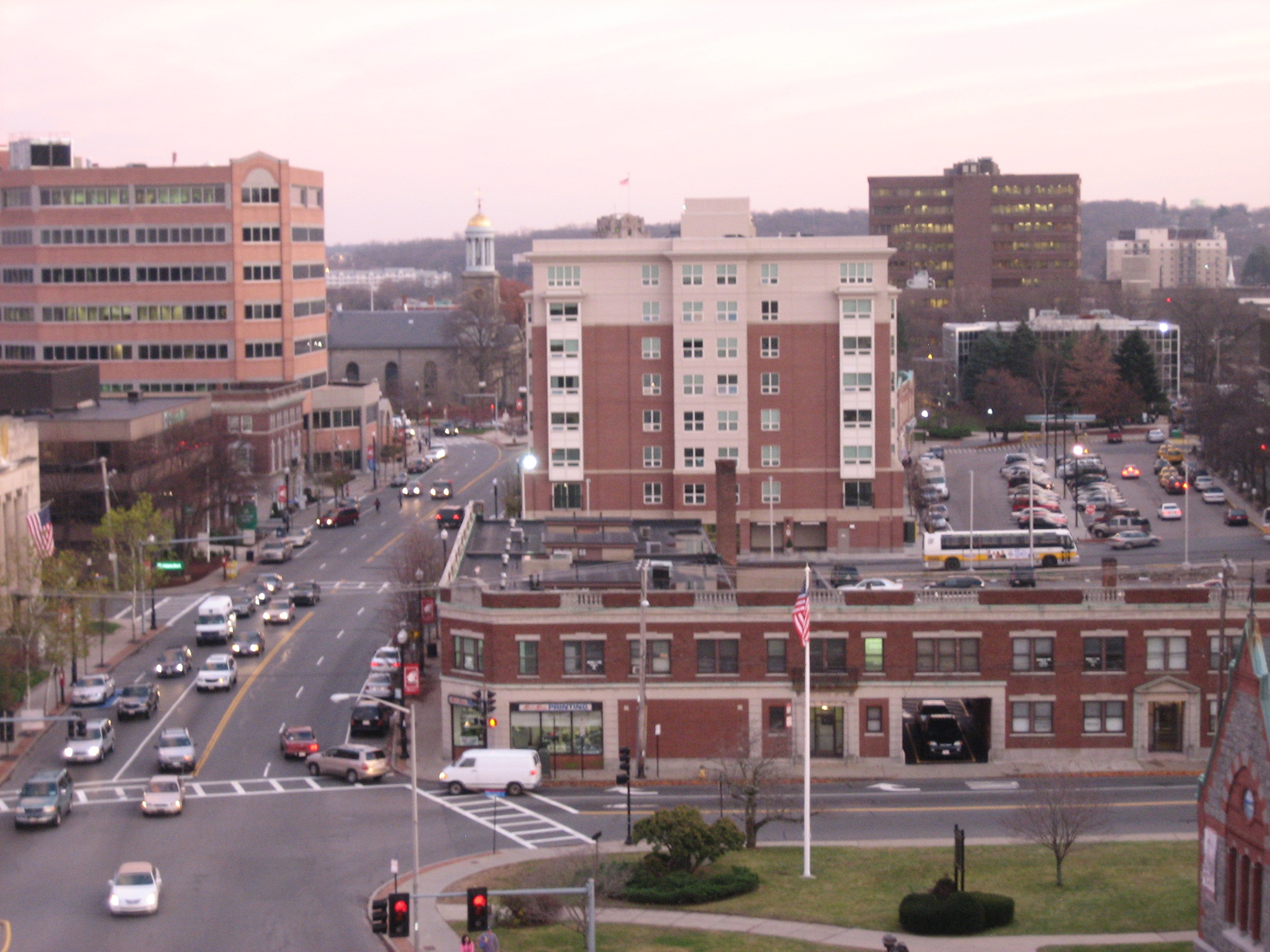 A view down Hancock Street at Quincy Center in Quincy, MA, by User:Cquan (2006).